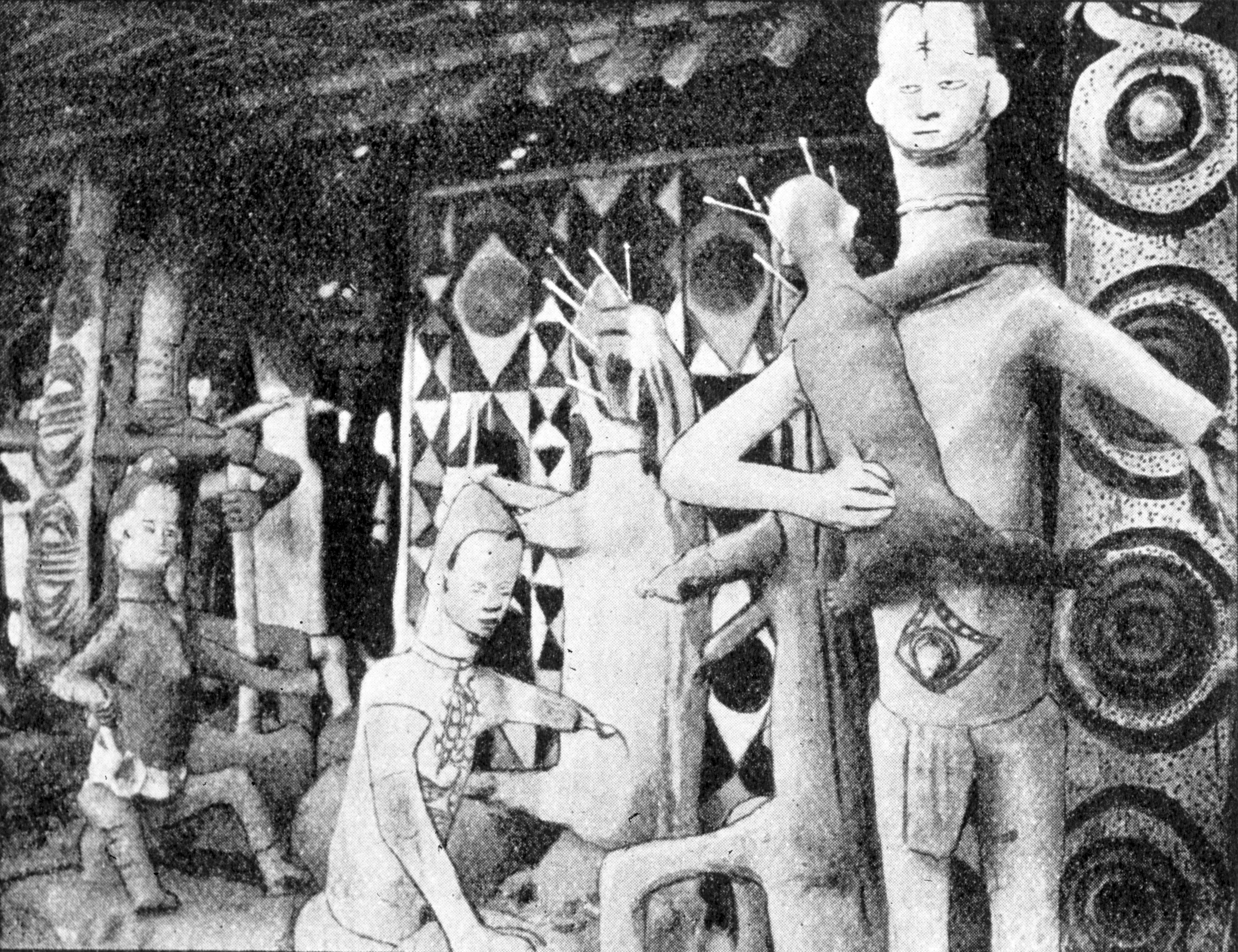 Fig 3. this is of interest as it shows the manner of dressing the back hair. Many of the women plait in false hair, which is collected by the prospective husband on betrothal. He not only contributes his own hair, but also purchases more to make up the required quantity, since the marriage may not be consummated until the hair is dressed in the approved manner, viz., low down on the neck as shown, or in two long braids. (p.163)